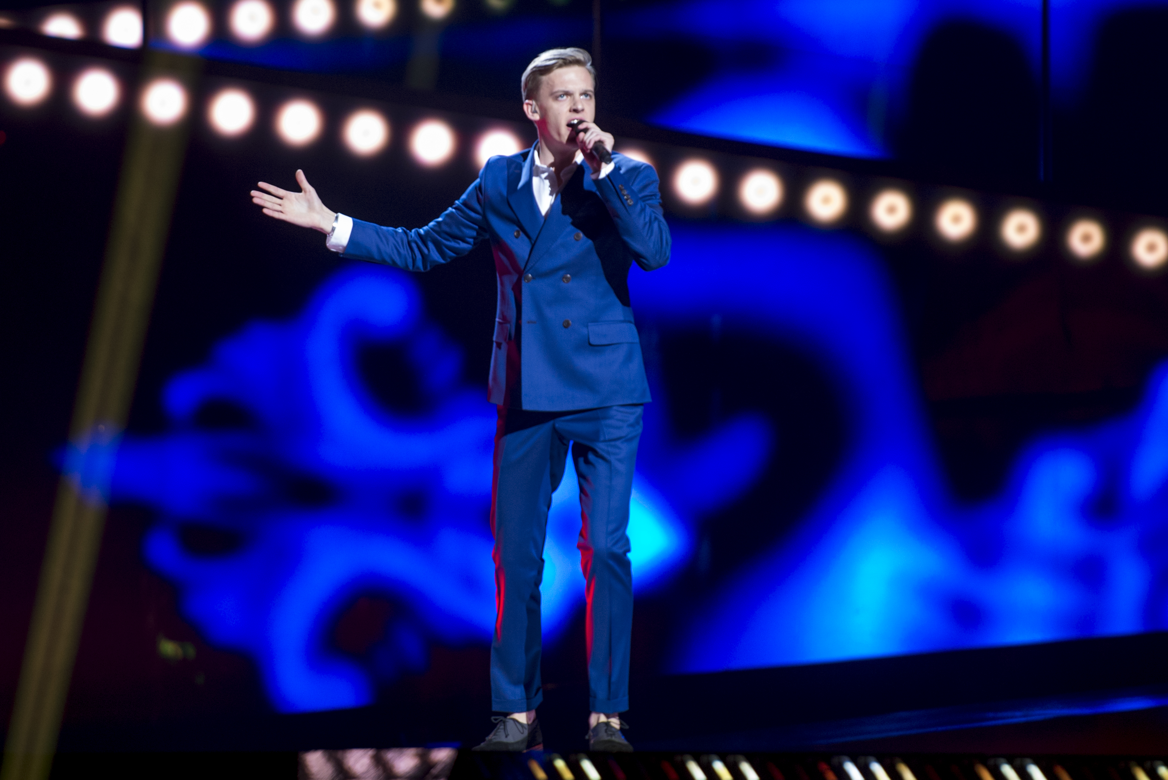 Jüri Pootsmann representing Estonia with the song "Play" during a rehearsal before the first semi final of the Eurovision Song Contest 2016 in Stockholm. (Help translate this text)